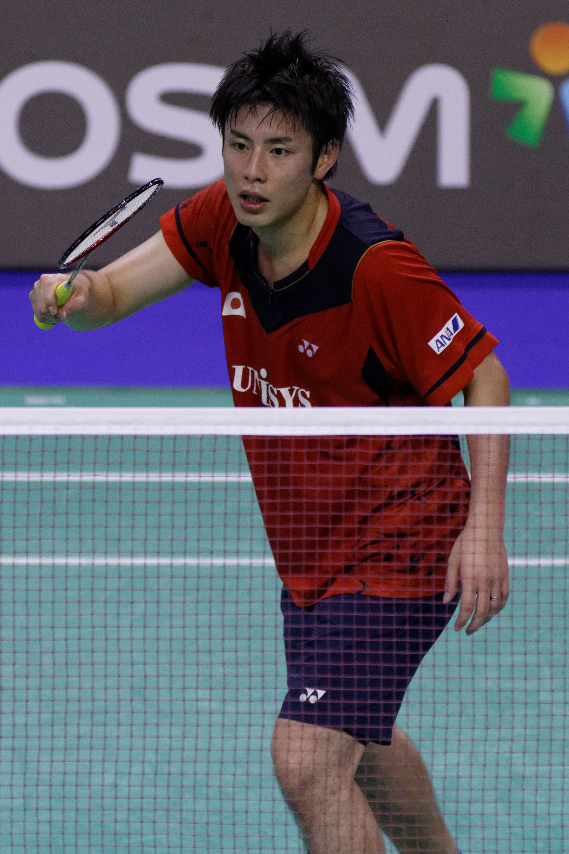 2013 French open. Mixed's doubles eightfinal. Kenichi Hayakawa and Misaki Matsutomo vs Selena Piek and Jacco Arends.